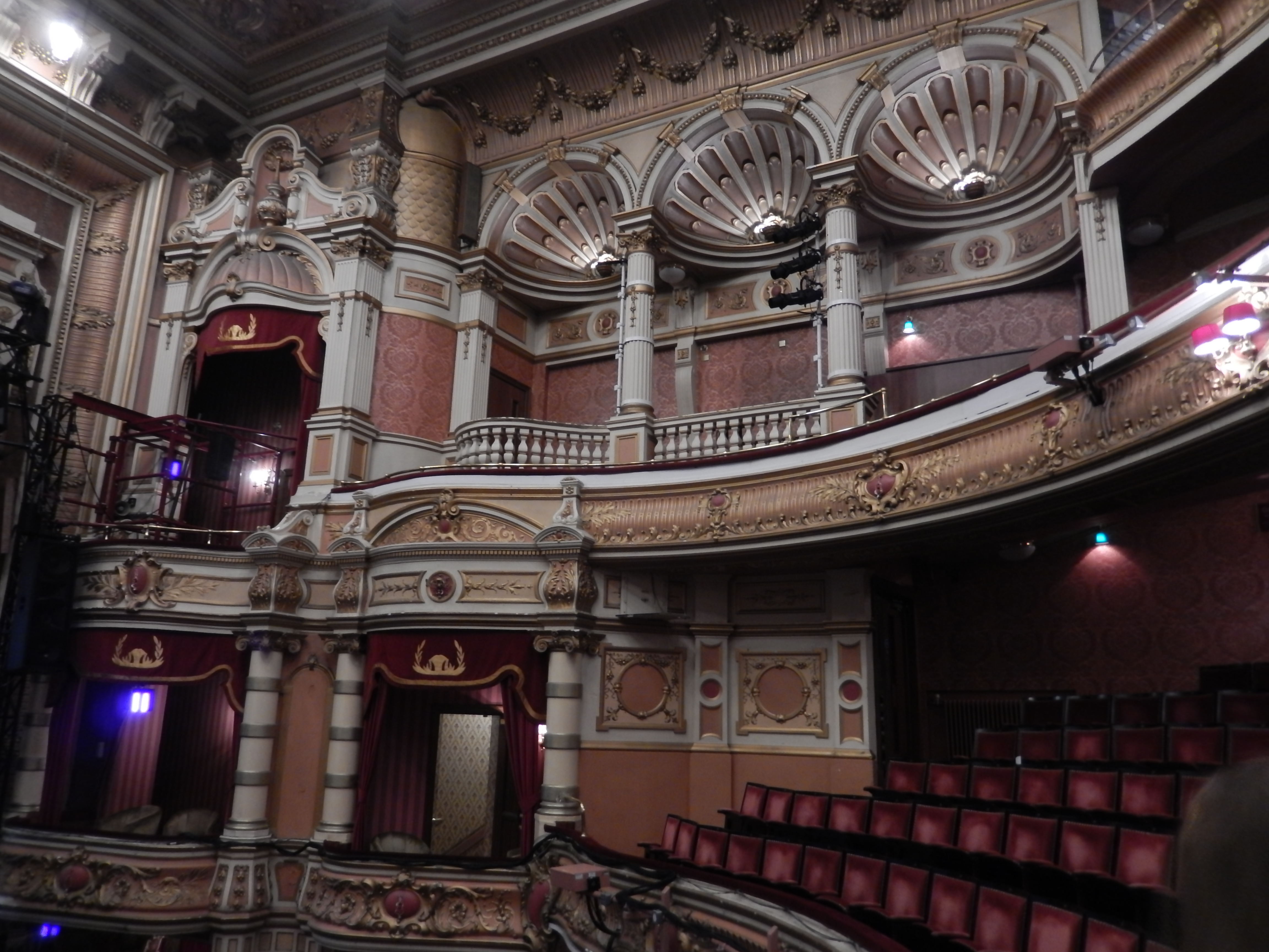 Interior of King's Theatre, Bath Street, Glasgow Wikidata has entry Q6411121 with data related to this item.